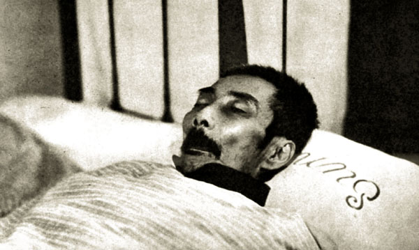 The remains of Lu Xun, photographed at No. 9, Lane 1, The Continental Terrace in Shanghai on October 19, 1936.